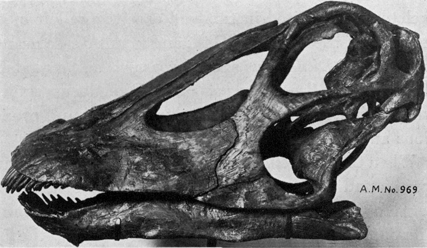 Skull of Diplodocus longus (AMNH 969) from Bone-Cabin Quarry, north of Medicine Bow, Wyoming.